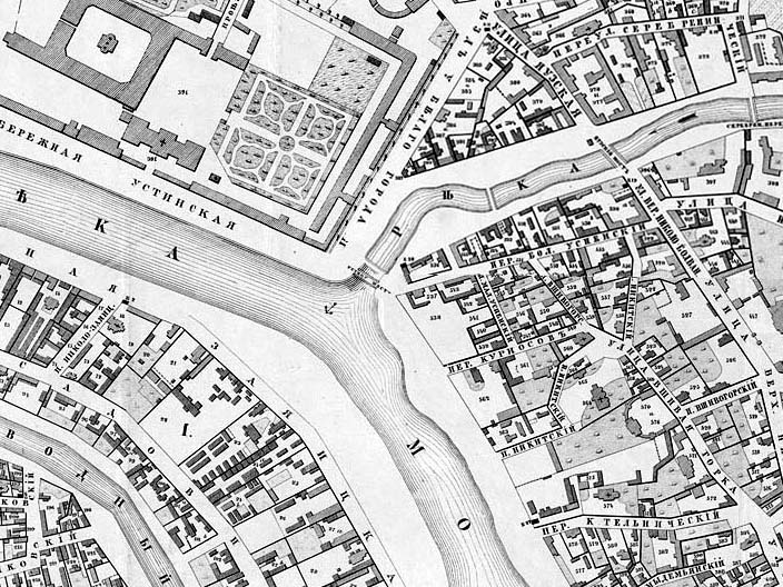 From 1853 Khotev's map of Moscow, Russia. Rivers Yauza and Moskva. Site of Bolshoy Ustinsky Bridge.